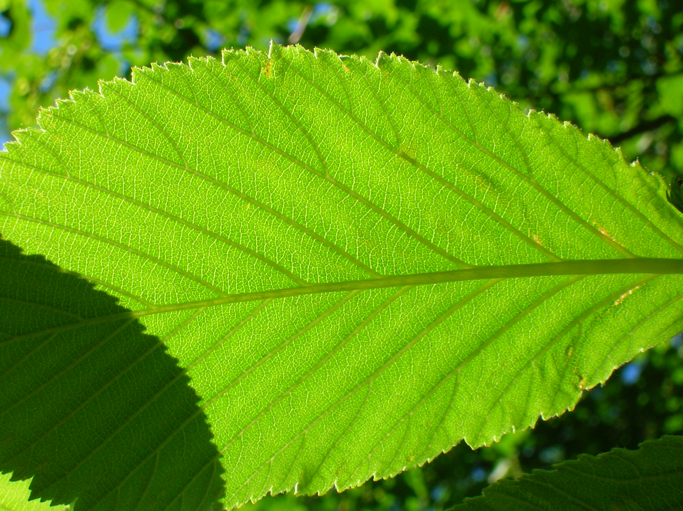 Leaf lower epidermis and veination of Common Whitebeam Sorbus aria S. intermedia.